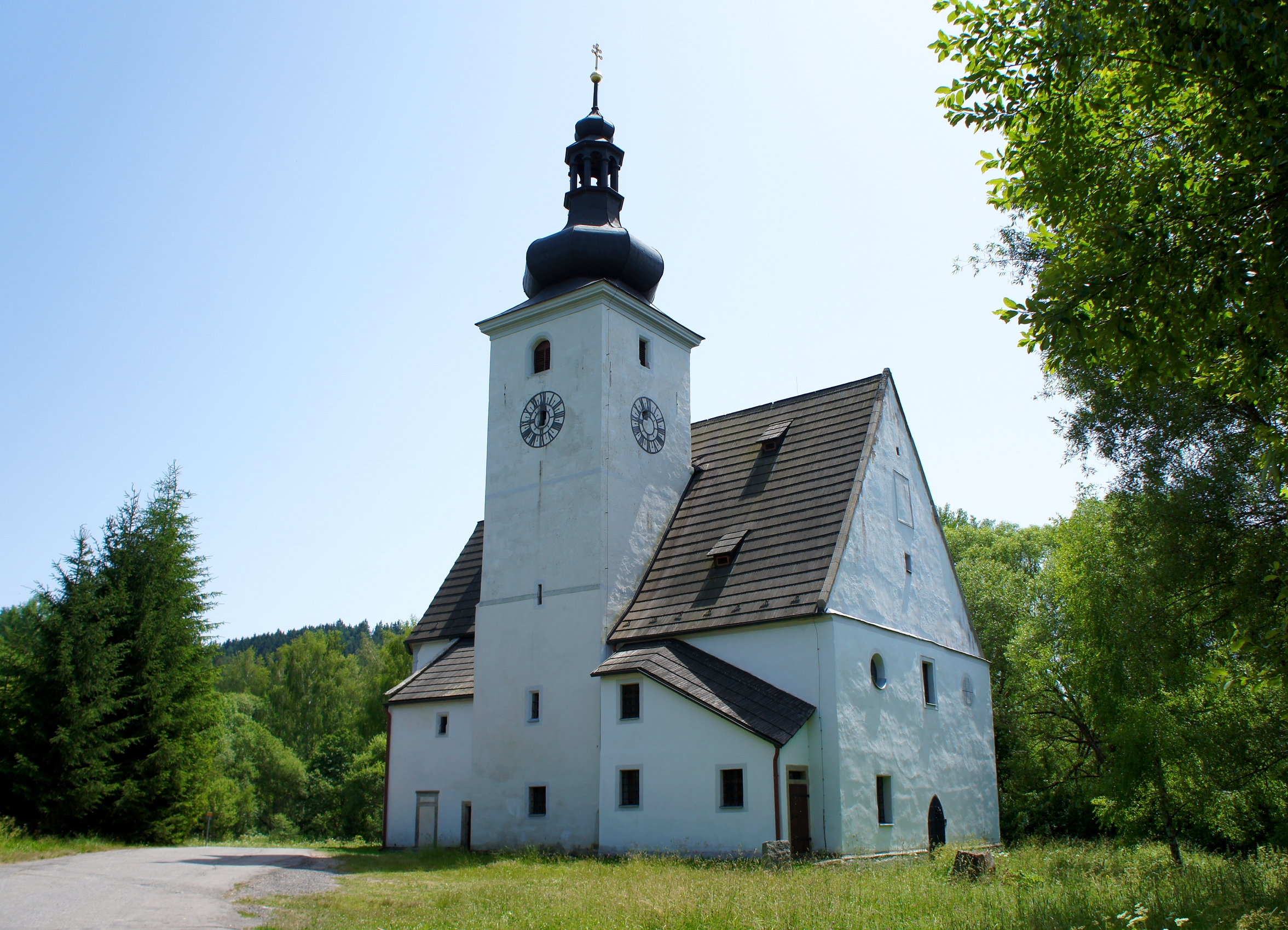 Birth of Virgin Mary Church in Cetviny (South Bohemian Region, Czech Republic).